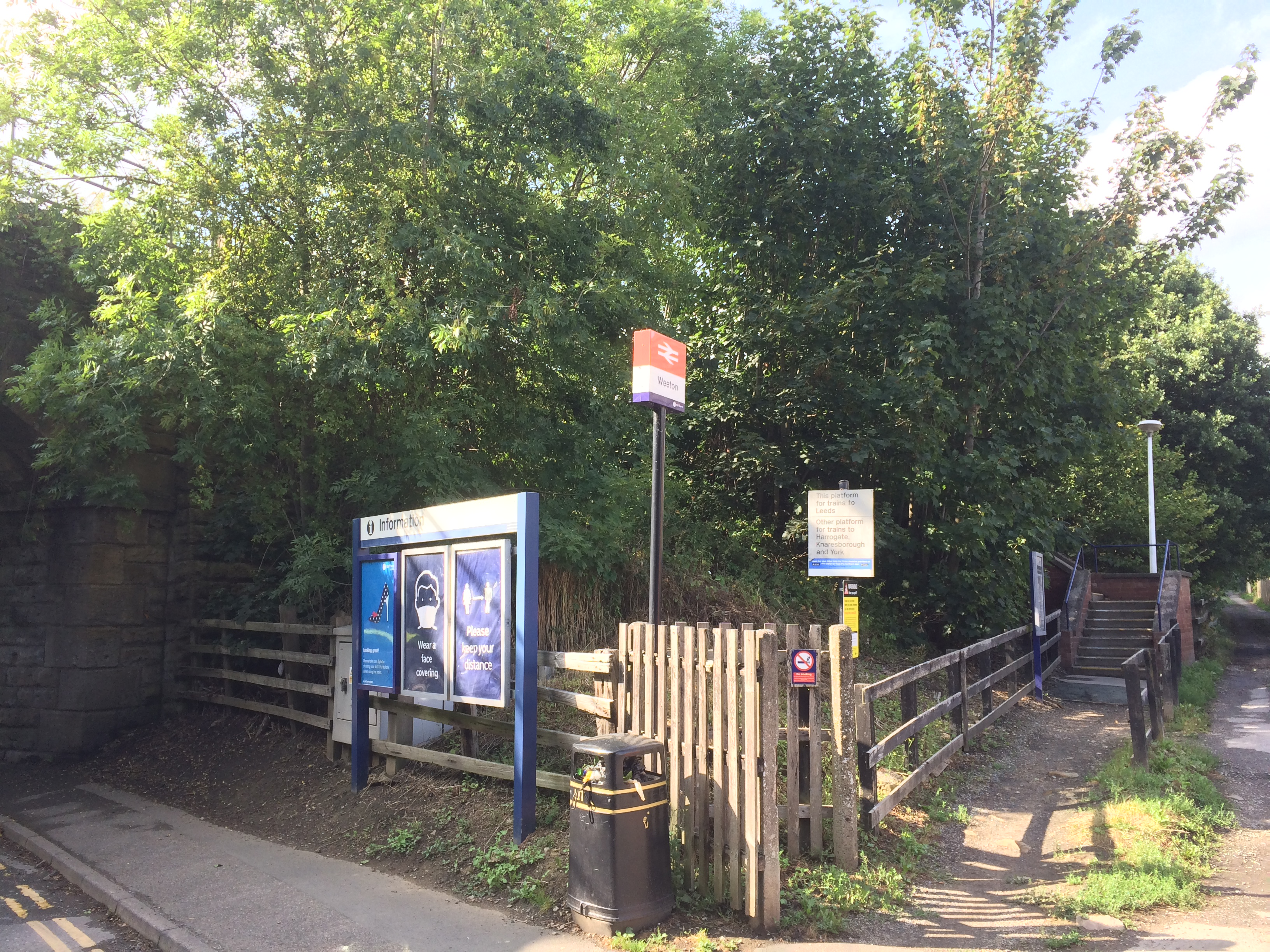 Weeton railway station entrance, August 2020